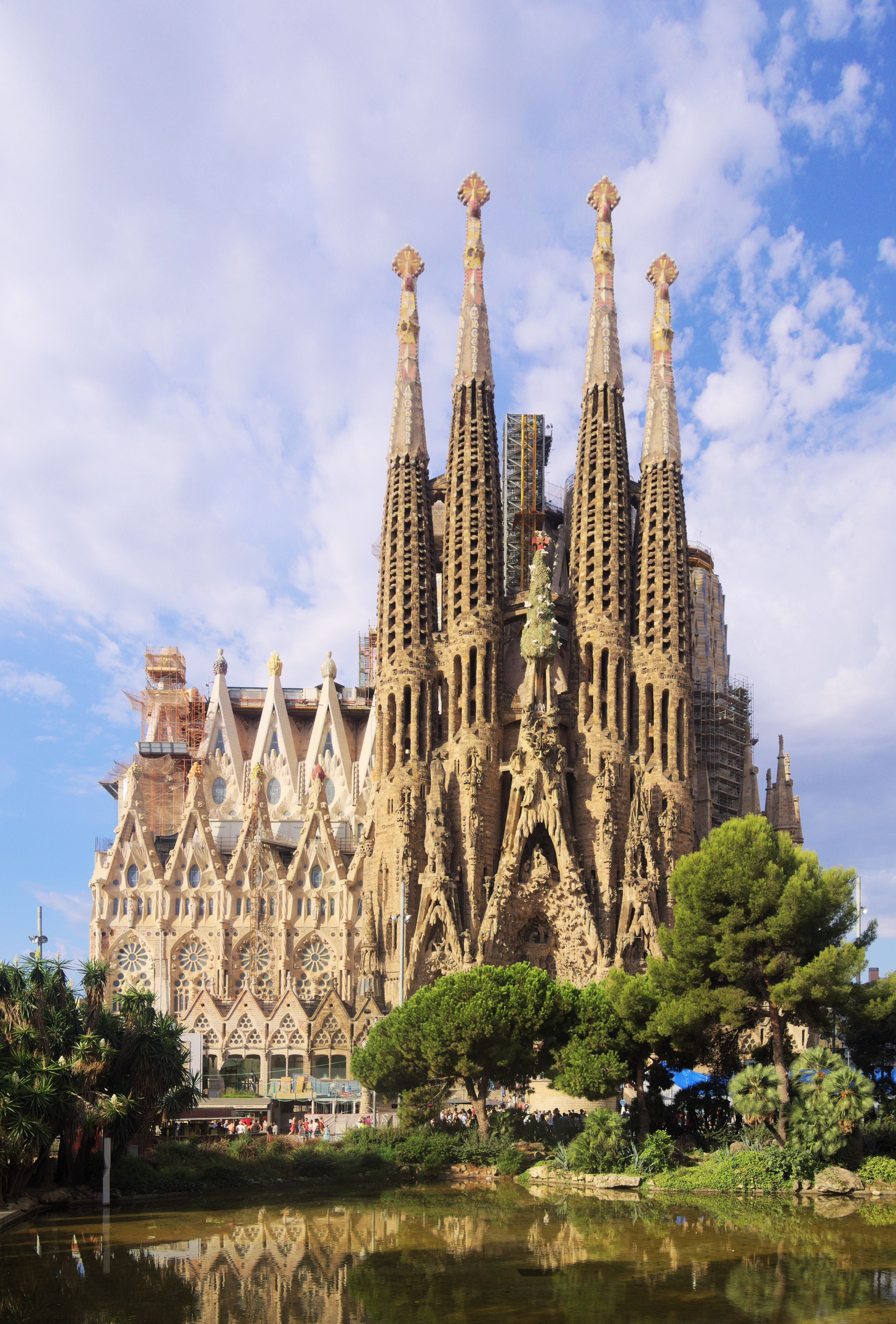 View of Sagrada Familia from Placa de Gaudi. The cranes have been digitally removed.